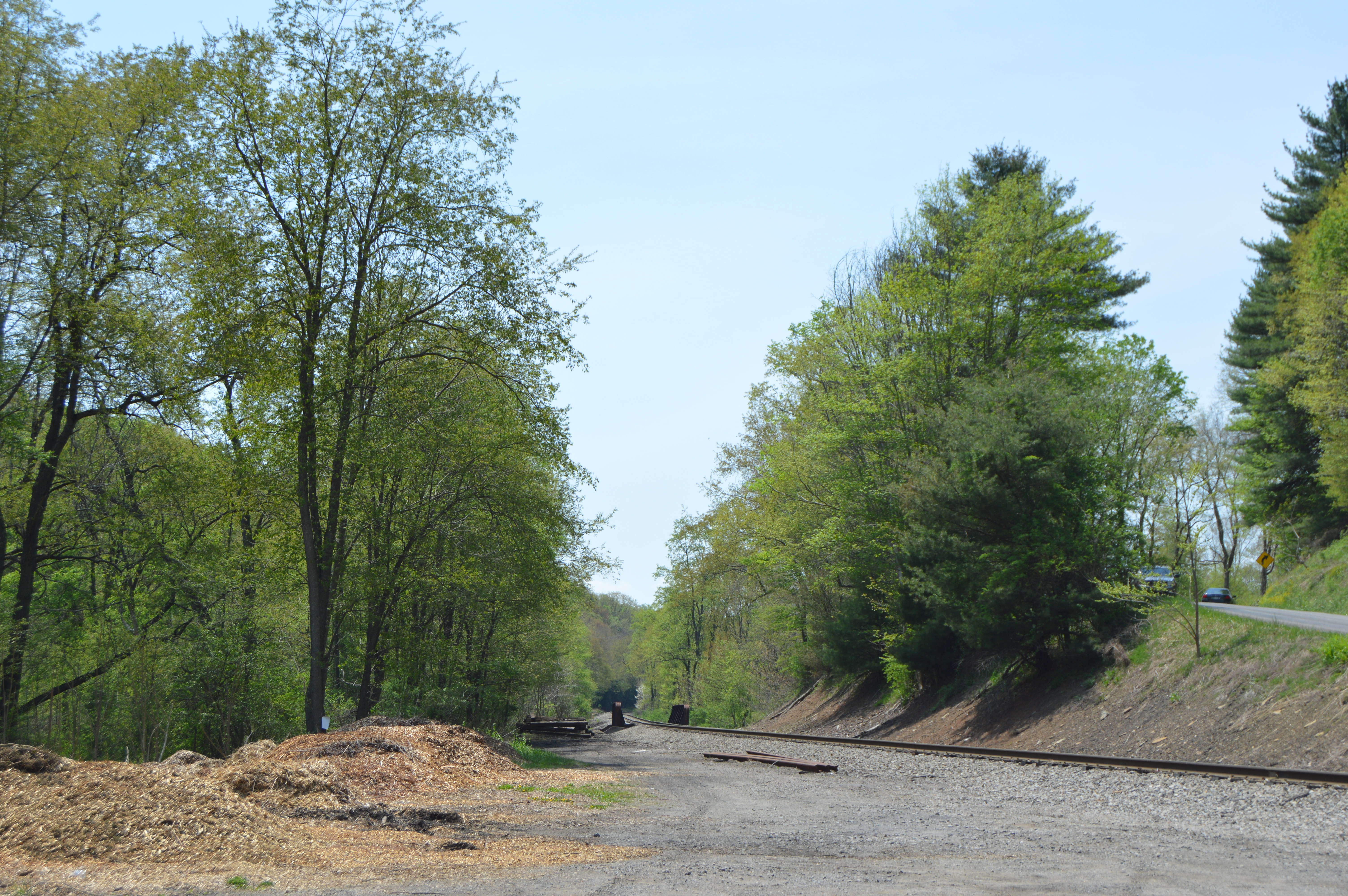 A rail line in southwestern Bell Township, Jefferson County, Pennsylvania, United States. Photo looks southwest from Smyerstown Road southeast of Punxsutawney; Cloe-Rossiter Road is visible at right, and Canoe Creek flows through the valley that is visible to the left.